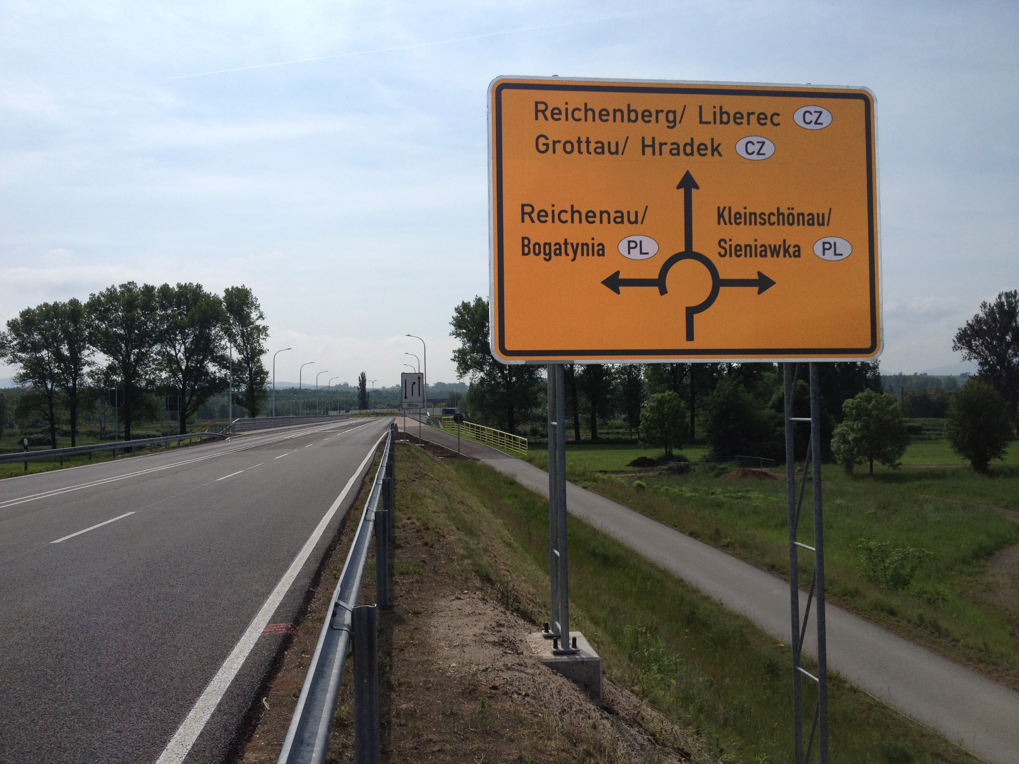 Border bridge crossing to Poland and the Czech Republic at the end of the federal motorway B 178